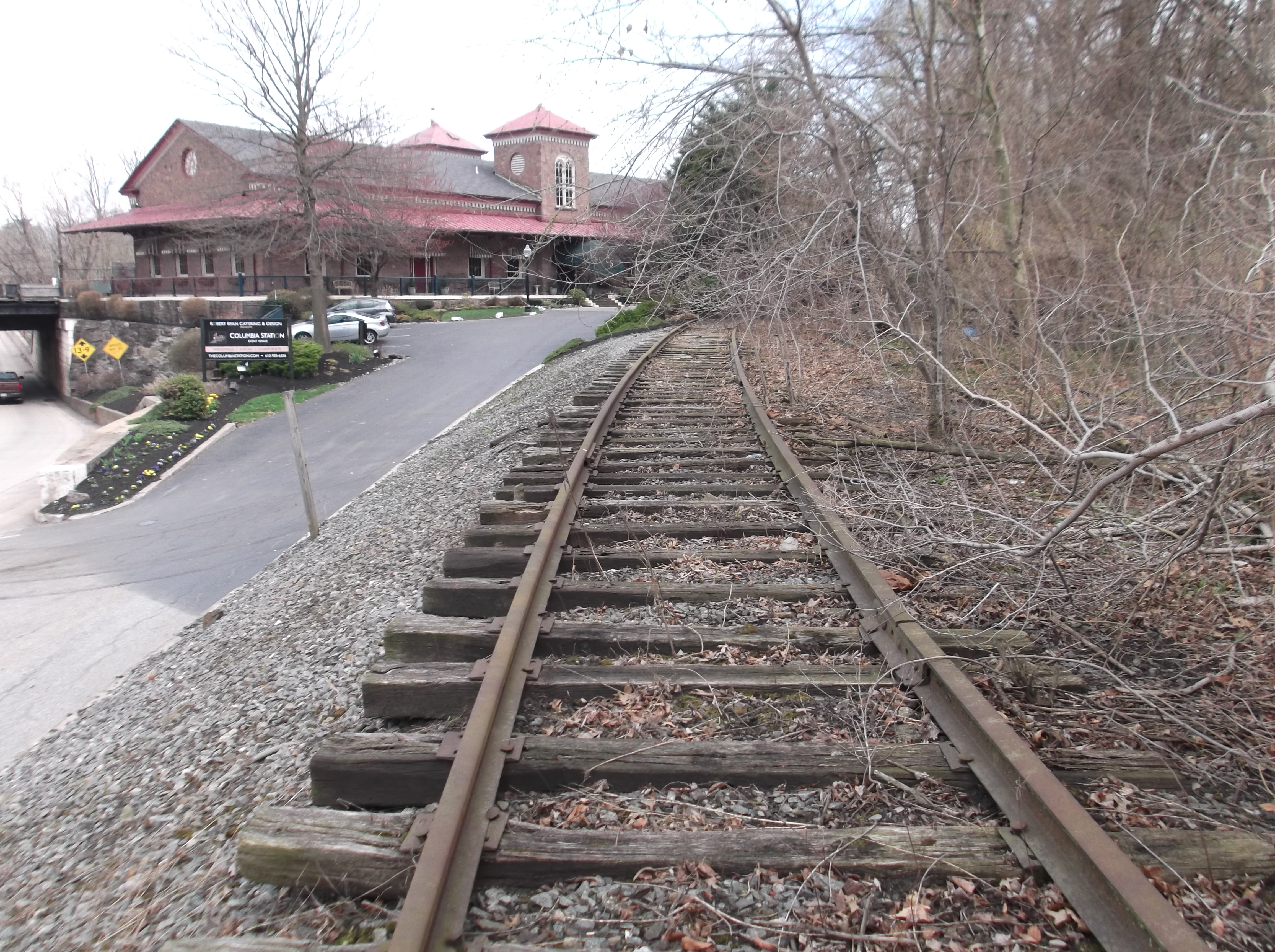 The only remaining track of the Pickering Valley Railroad, near Bridge Street in Phoenixville, Pennsylvania.